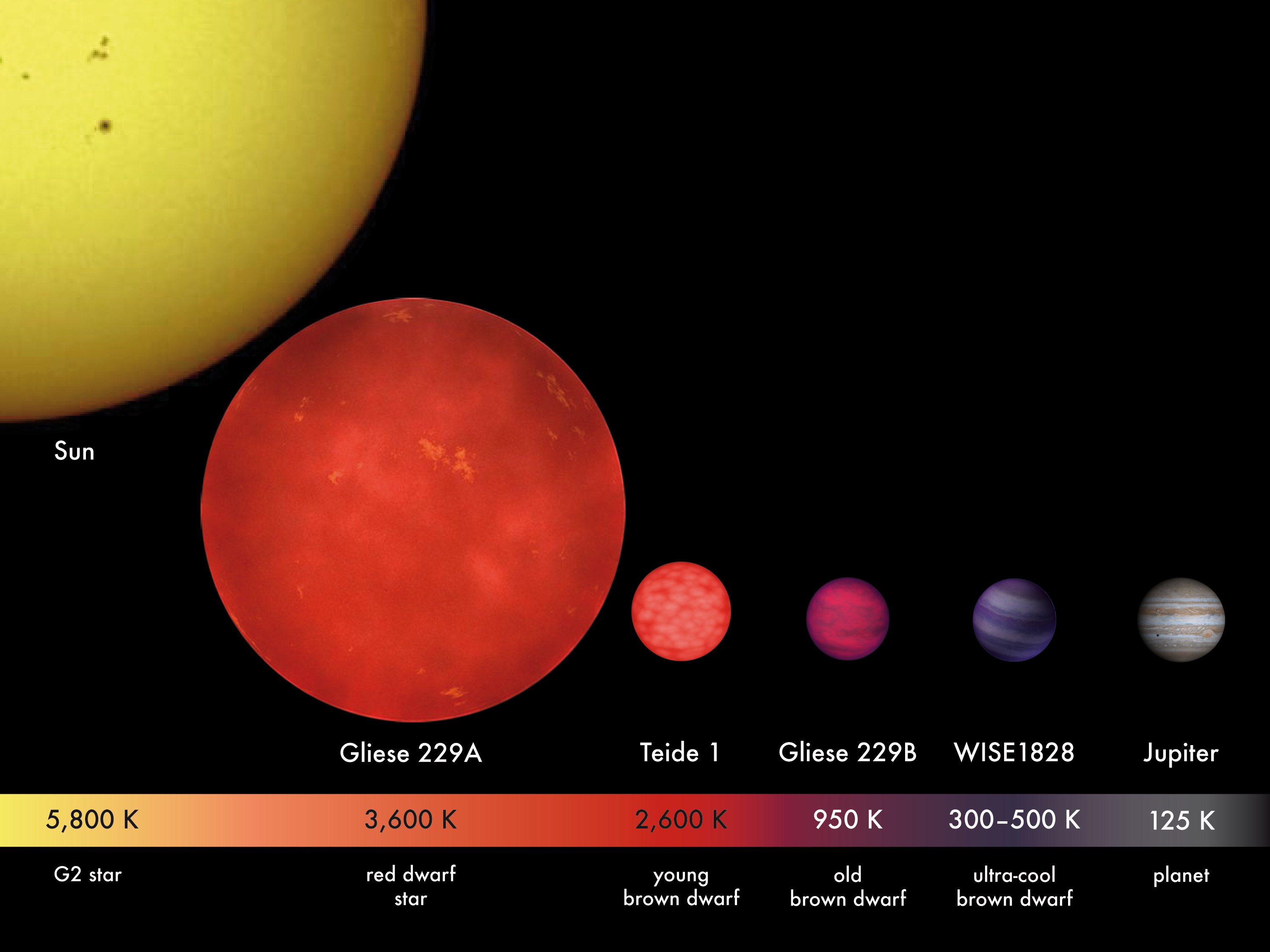 Comparison of sizes and effective temperatures of planets, brown dwarfs, and stars. Displayed are the Sun, the red dwarf star Gliese 229A, the young brown dwarf Teide 1, the old brown dwarf Gliese 229B, the very cool brown dwarf WISE 1828+2650, and the planet Jupiter. Graphic after American Scientist/Linda Huff using NASA satellite images (Sun, Jupiter) and NASA artist work (Gliese 229A + B, Teide 1, WISE1828+2650).